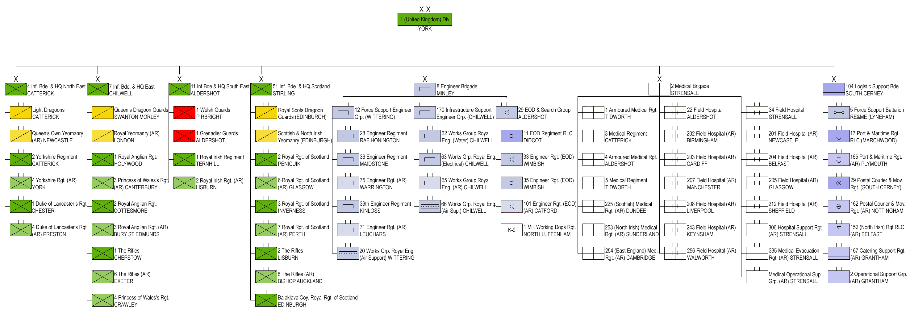 Structure of 1st (UK) Division after the 2019 changes